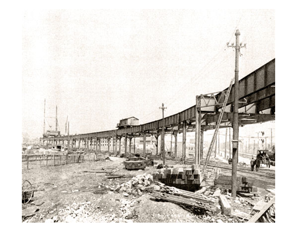 Construction of Culver Shuttle structure